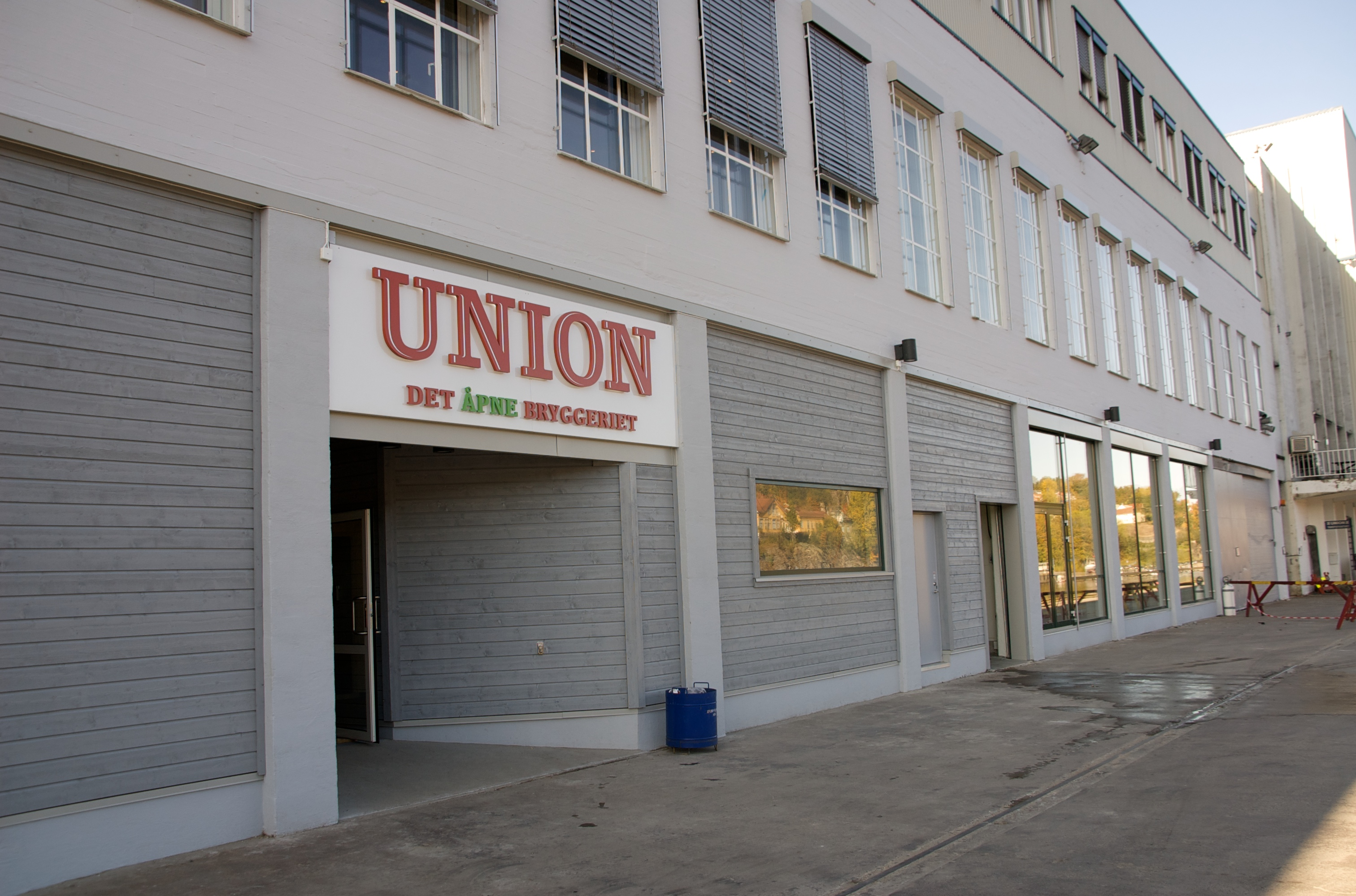 Union brewery main entrance, Klosterøya, Skien, Norway.